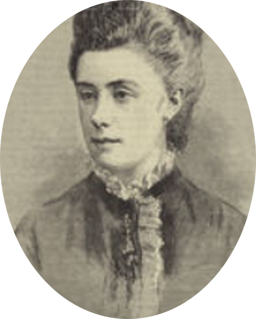 Lady Ela Russell, owner of Chorleywood House, 1879